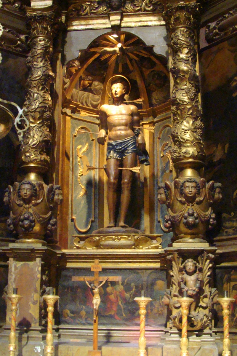 Church of Our Lady of the Angels in Pollença